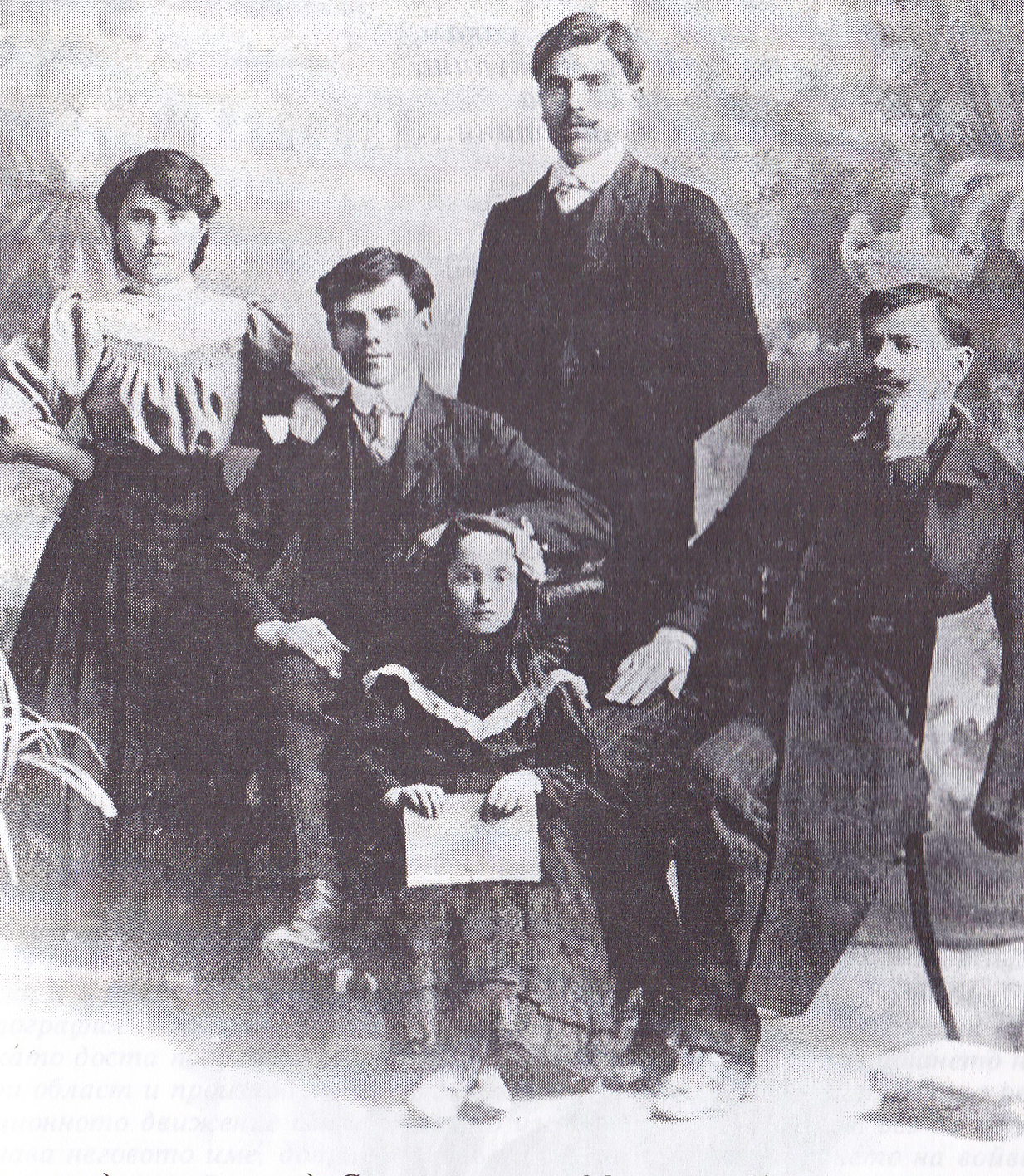 revolutionaries from Bulgaria, picture taken in Kosinets